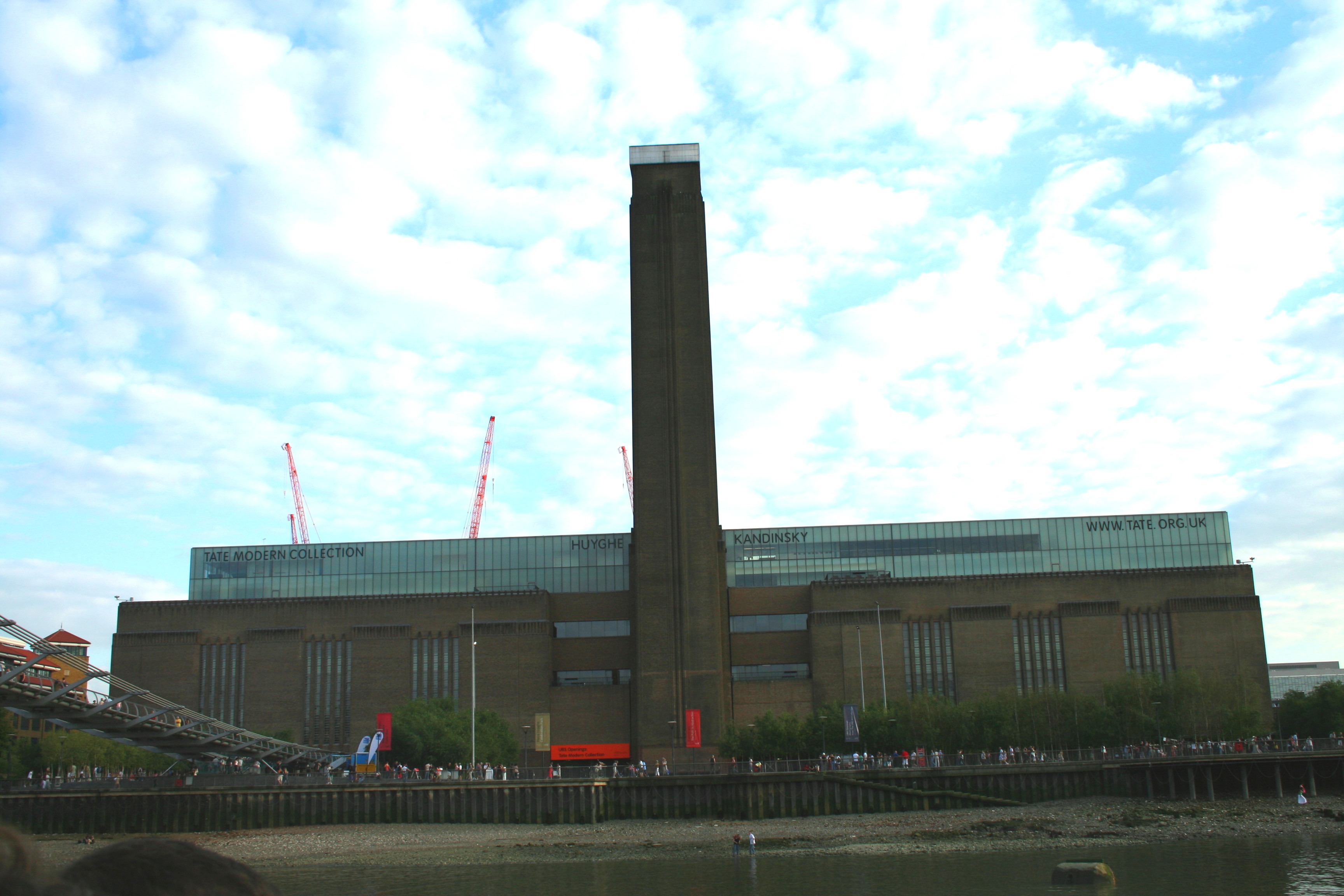 Tate Gallery of Modern Art, London, England